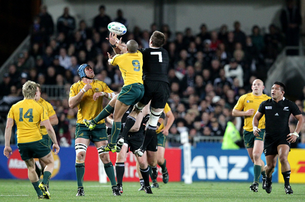 blacks australia 038 CN6P5203 internet